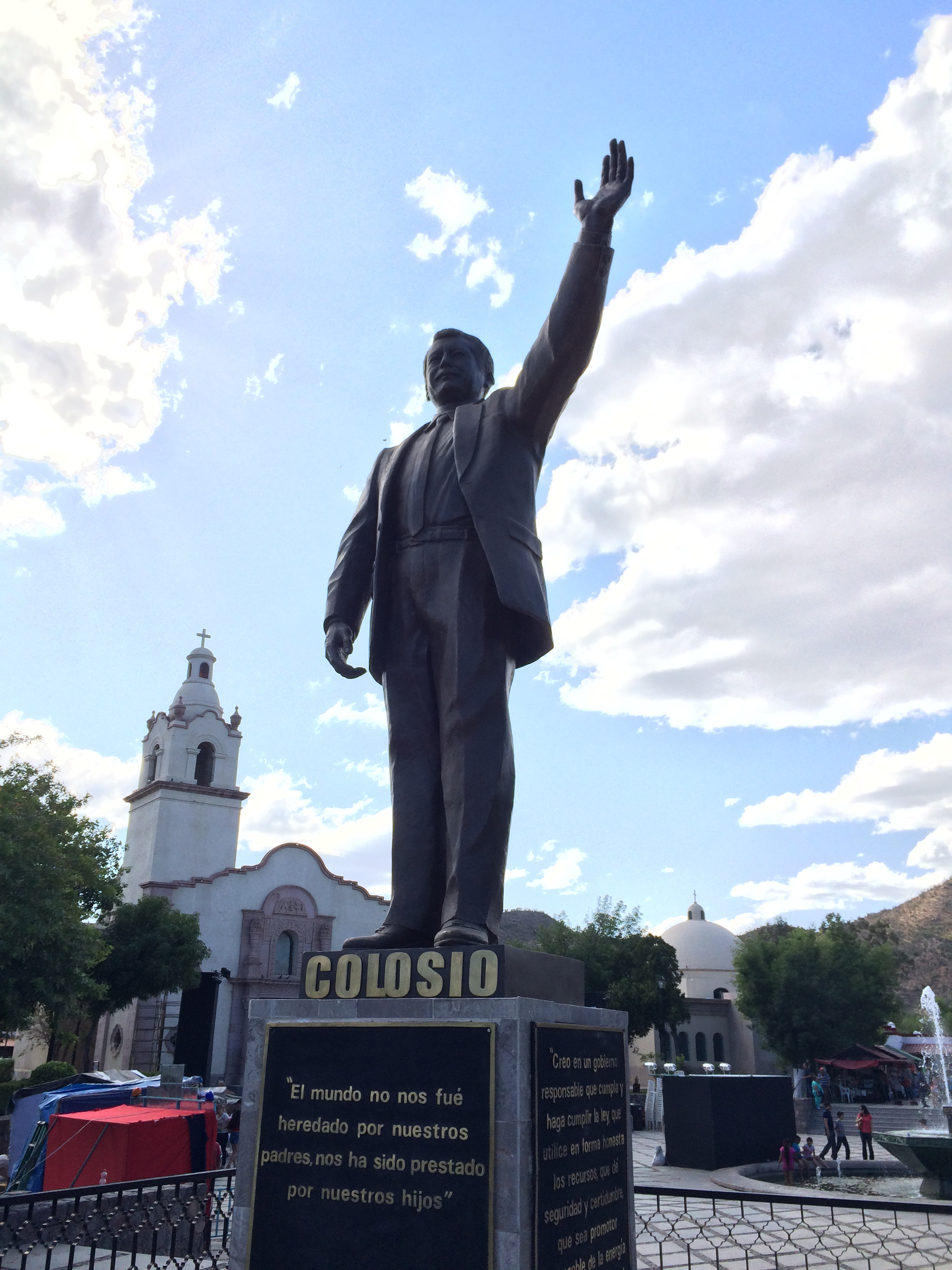 Monument to Luis Donaldo Colosio Murrieta in Magdalena de Kino, Mexico.